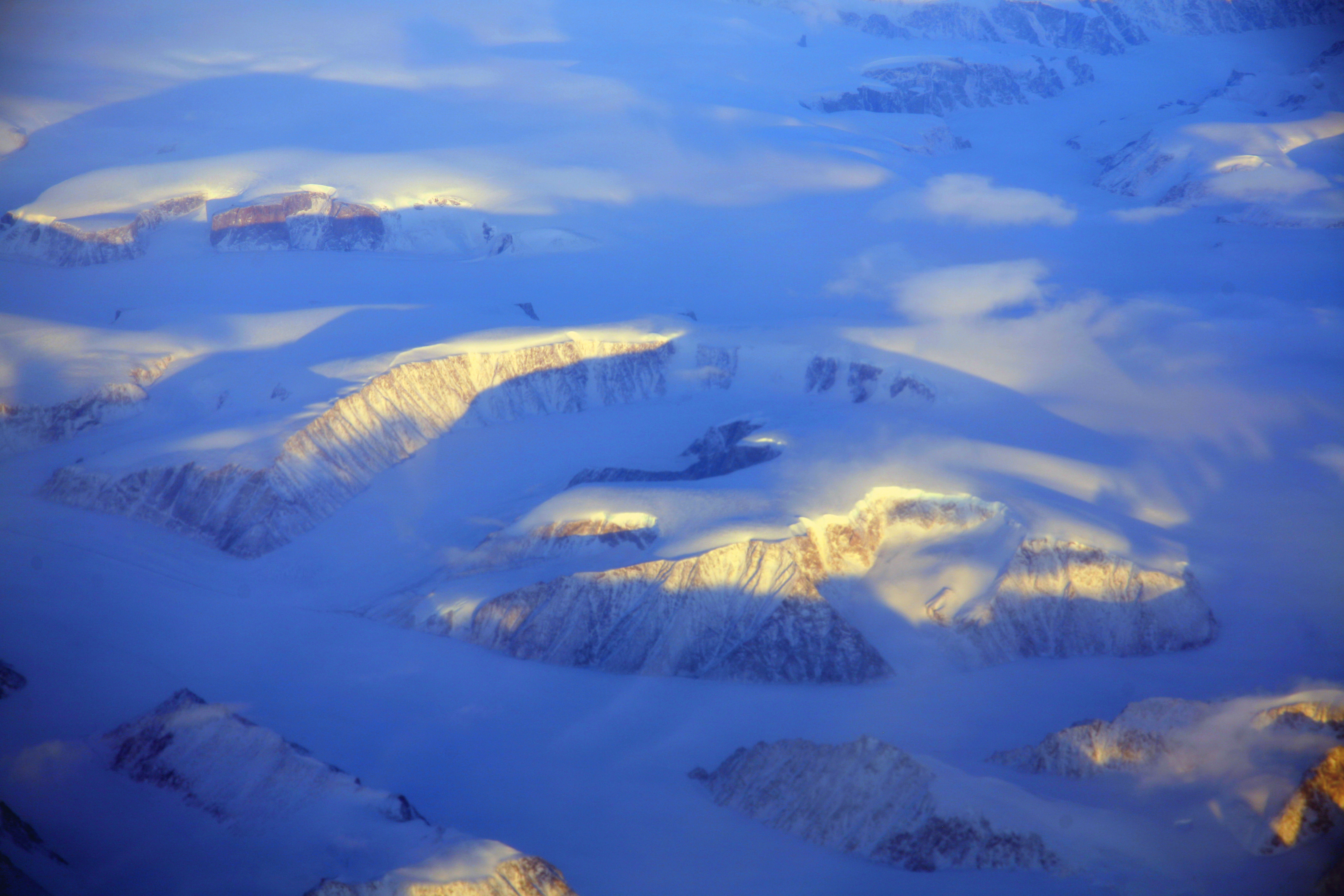 The Penny Ice Cap, in Baffin Island's Auyuittuq National Park, which is on the island's Cumberland Peninsula.